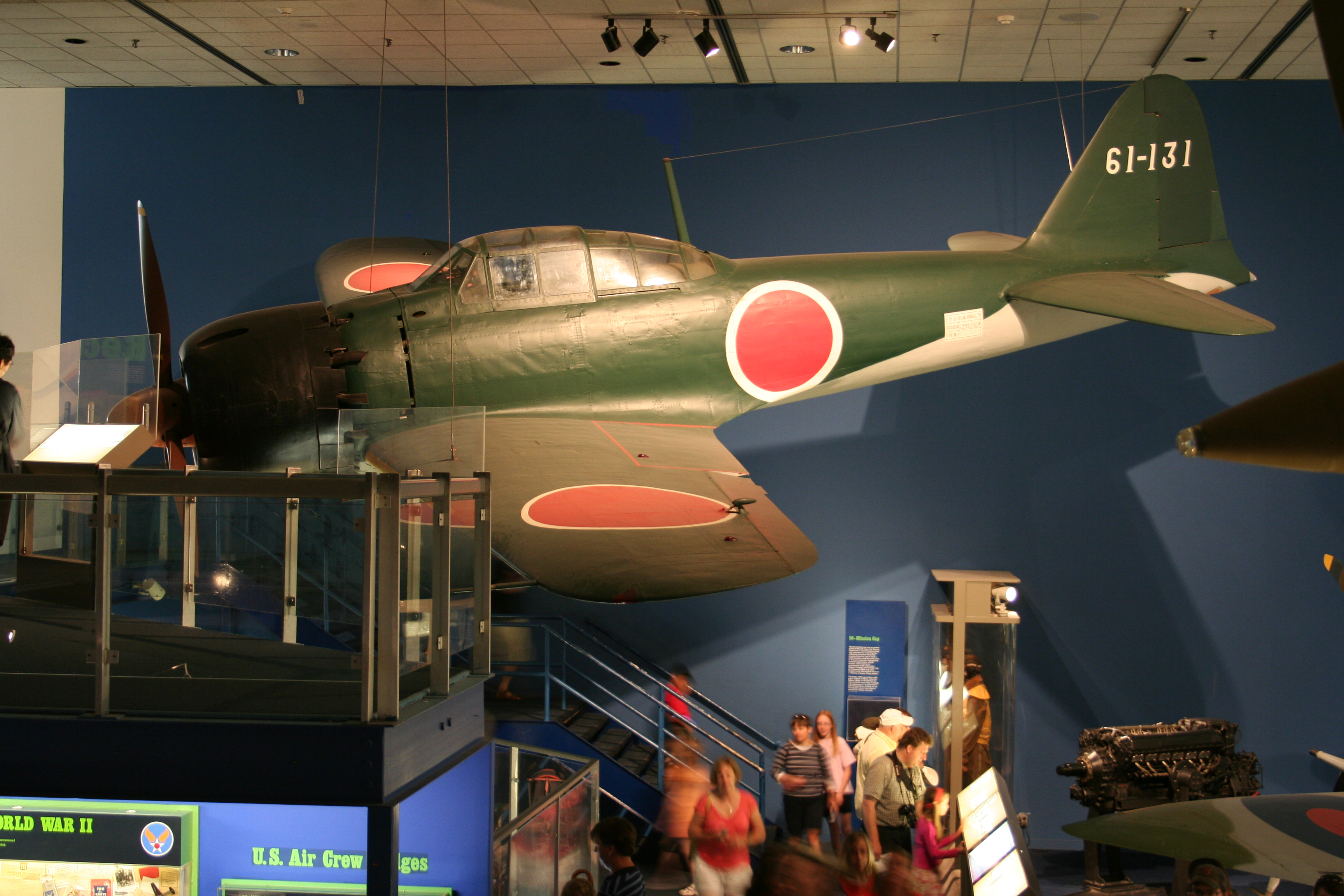 On display at the Air and Space Museum, Washington, D.C.